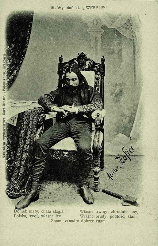 Kazimierz Kamiński as Stańczyk in Wesele (Kraków, 16.03.1901)